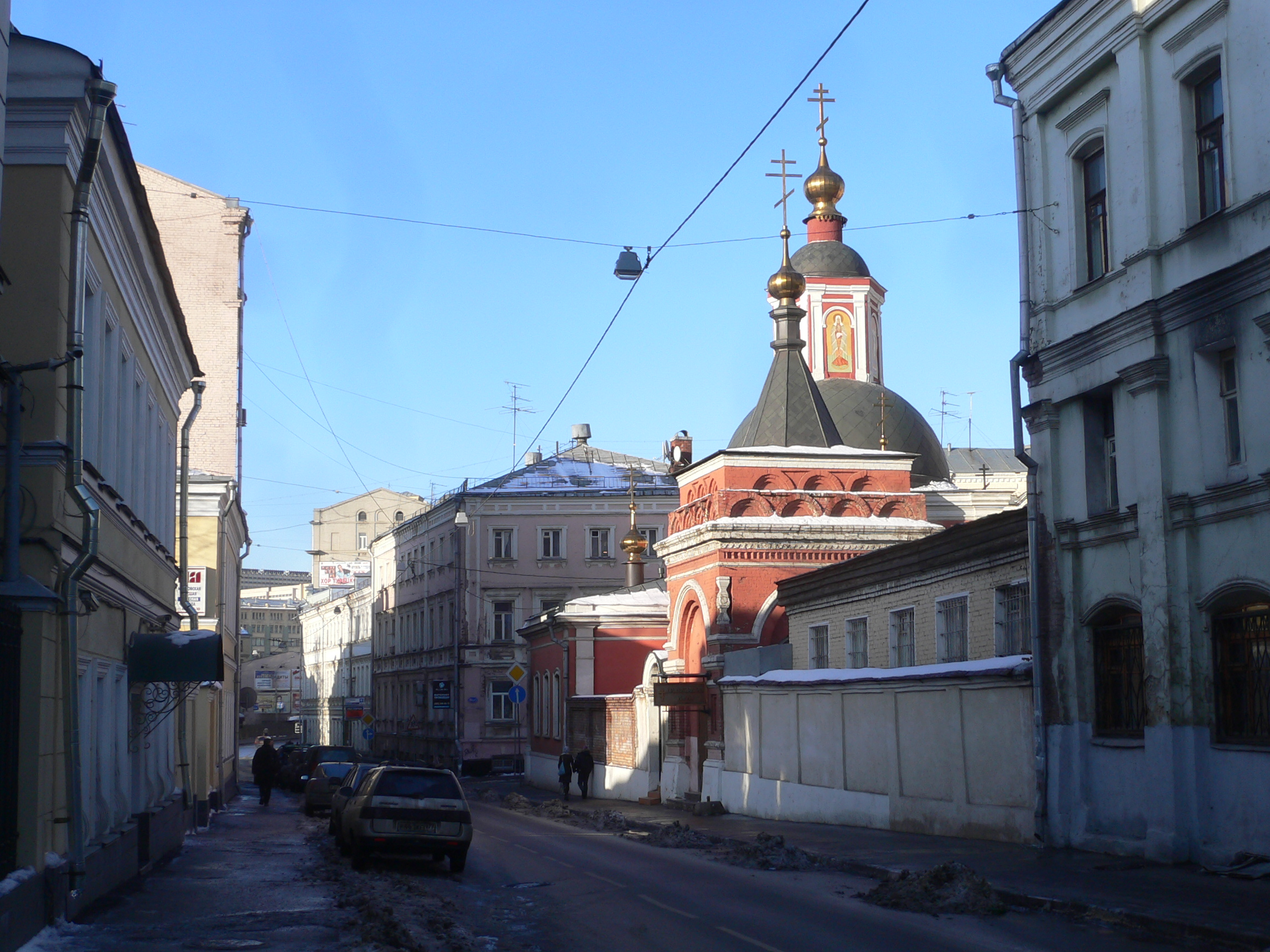 Podkolokolny Lane, Moscow. Church of St. Nicholas, 17th-18th centuries